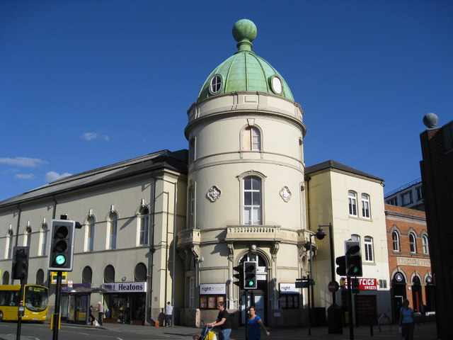 The Corn Exchange Full view of the old Corn Exchange building, which now houses a snooker club.